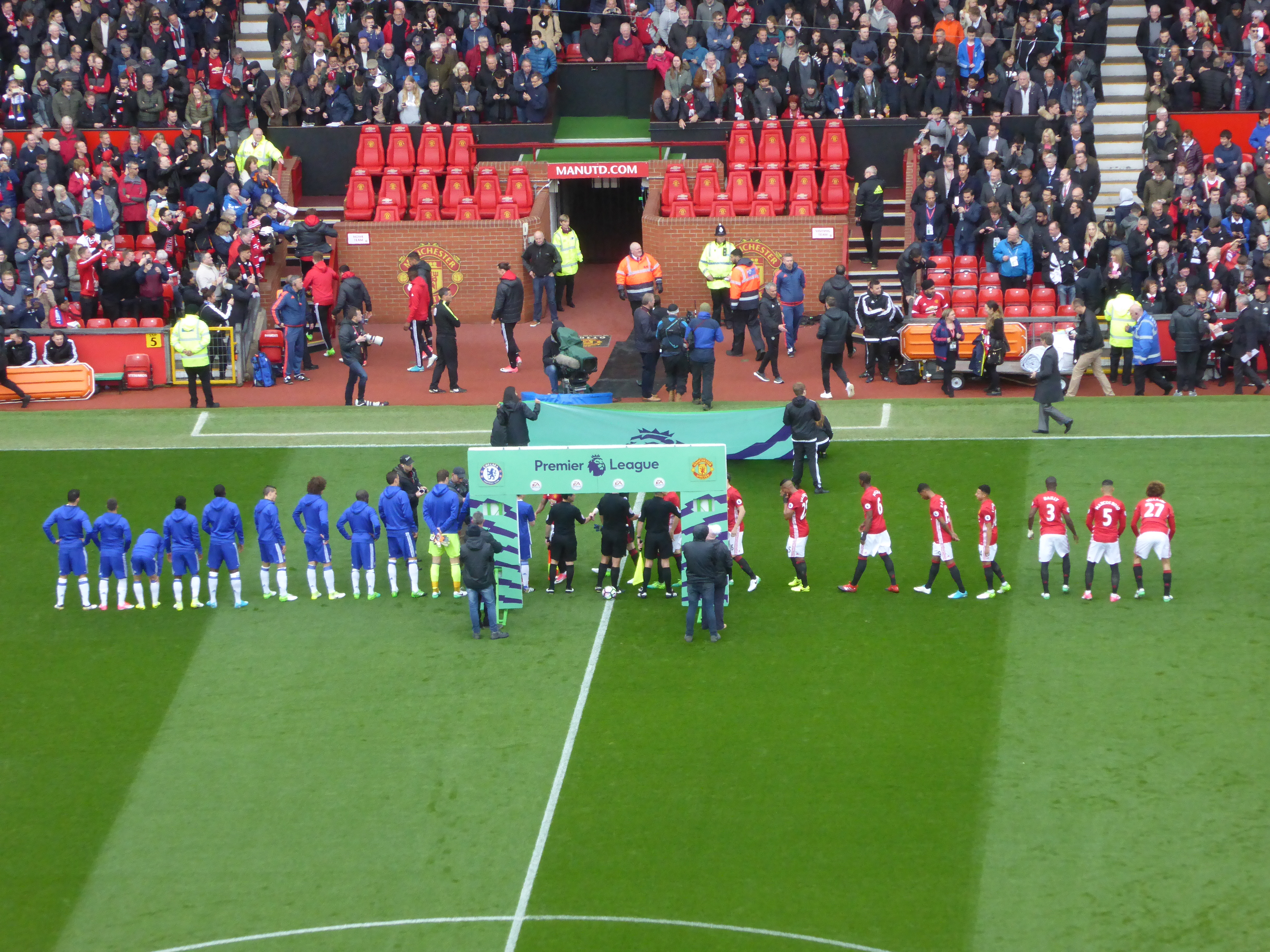 Manchester United v Chelsea (2-0), Premier League, Old Trafford, Manchester, Greater Manchester, England, 16 April 2017